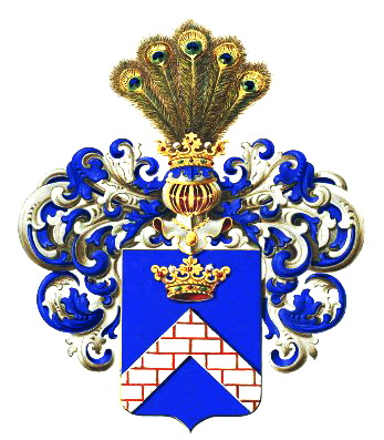 Coat of Arms of Stokkey family